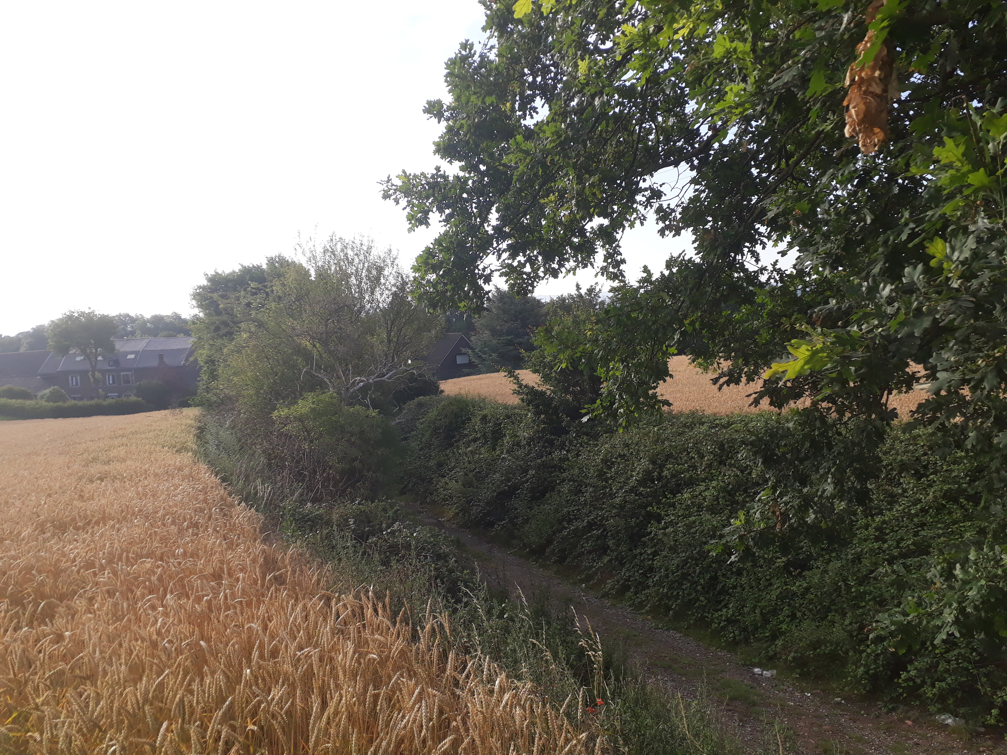 Haren vu à partir du nord-ouest